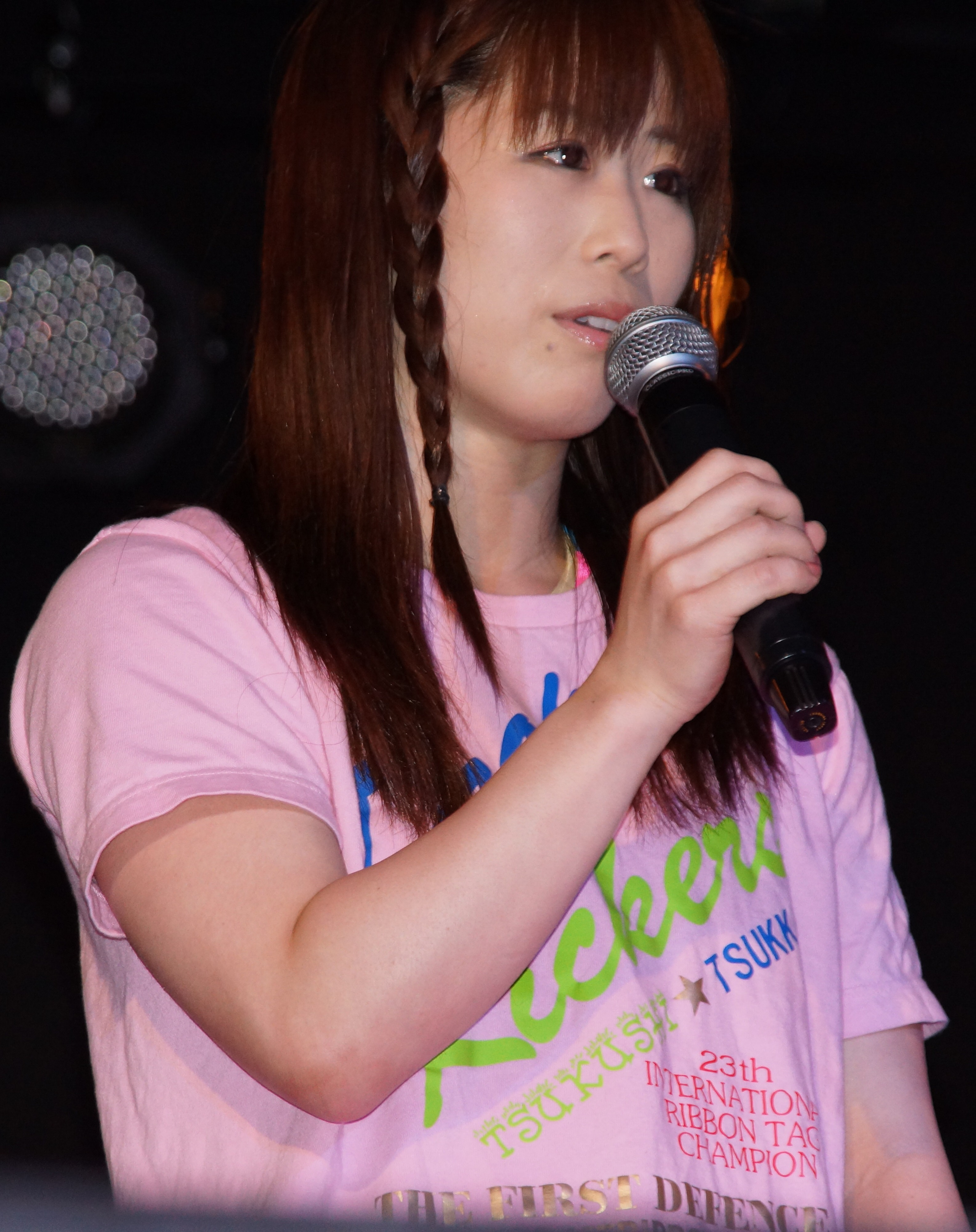 Professional wrestler Tsukasa Fujimoto at an Ice Ribbon event.